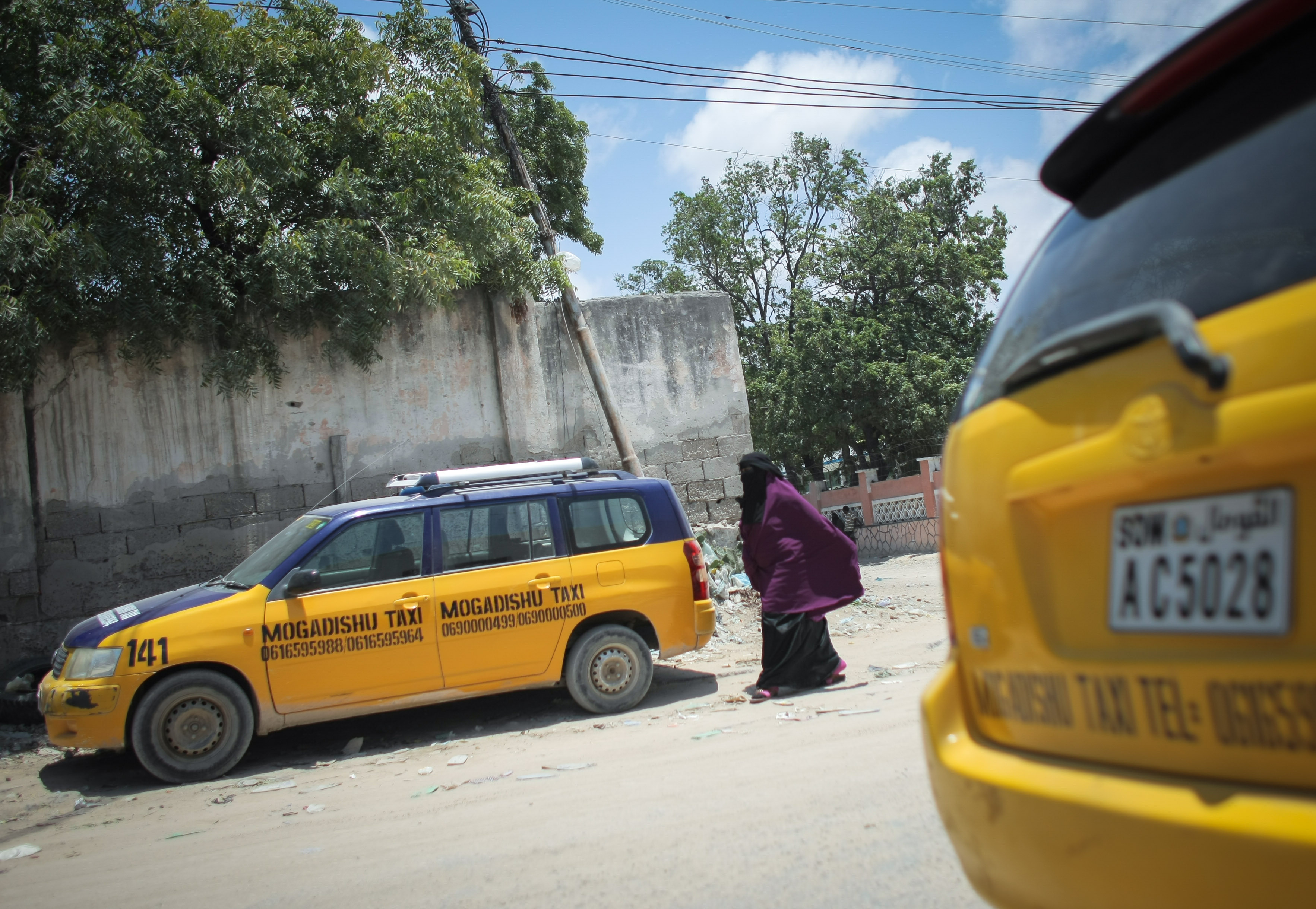 A woman walks past cars belonging to the Mogadishu Taxi Company next to the company's head office in the Somali capital Mogadishu, 01 September 2013. Operating since the end of May of this year in the city's dusty and once again bustling streets and thoroughfares, the MTC's distinctive yellow and purple cars offer customers taxi fares around Mogadishu at competitive rates and in the first 3 months of operations, the company has increased it's fleet of vehicles from an initial 25 to over 100. The company, according to one of it's drivers, also enables employment opportunities for Somalia's youth following two decades of conflict in the Horn of Africa nation that shattered a generation. Now, thanks to the relative peace that has followed the departure of the Al-Qaeda-affiliated extremist group Al Shabaab from the city; an internationally recognised government for the first time in years and thousands of Diaspora Somalis returning home to invest in and rebuild their country, the MTC is one of many new companies establishing itself in the new Mogadishu and offering services that were hitherto impossible to provide. AU-UN IST PHOTO / STUART PRICE.